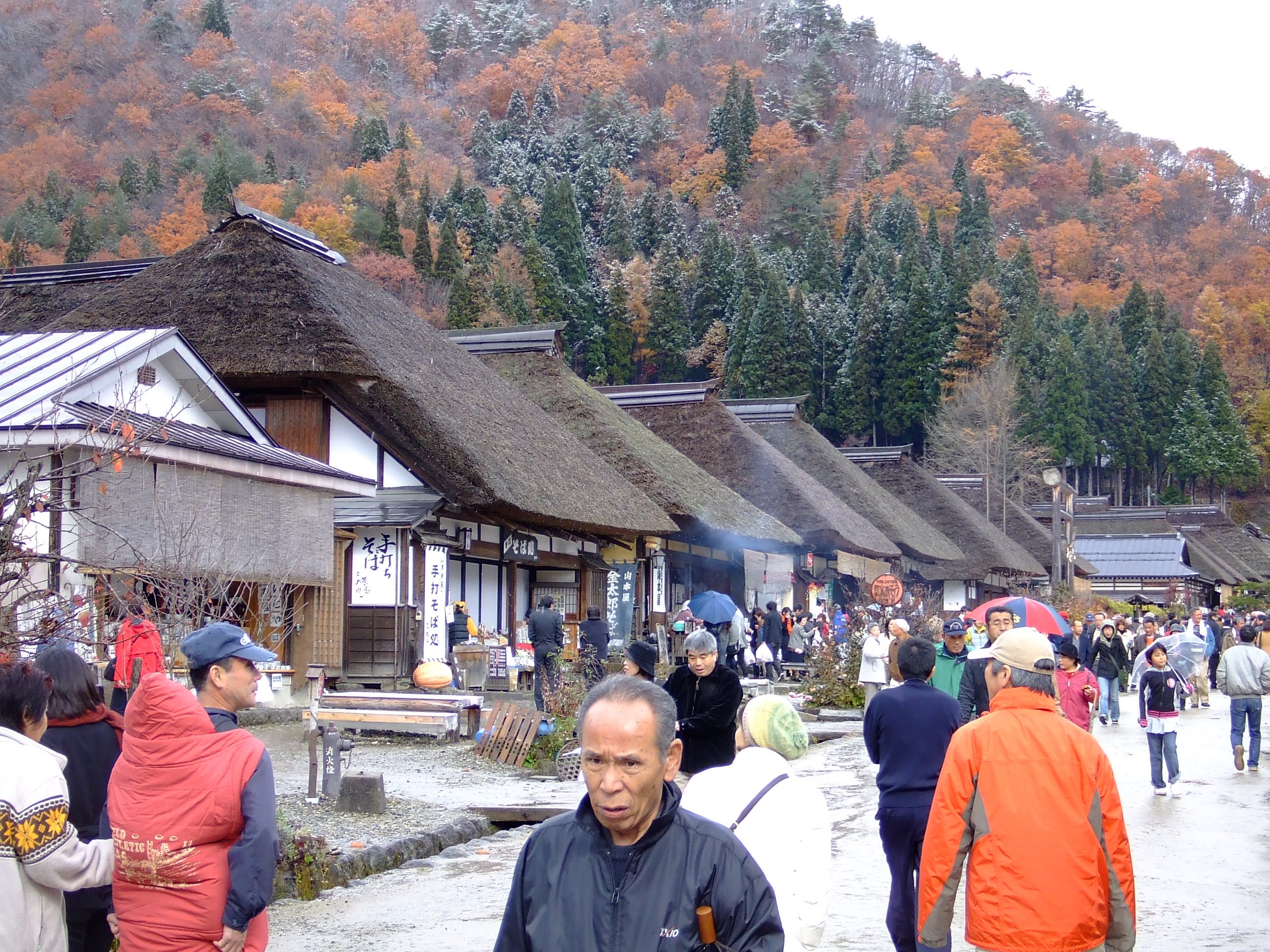 This is a photo of the main street in the village of Ouchijuku in Fukushima Prefecture, Japan. I took it with a digital camera on 12th November 2006.